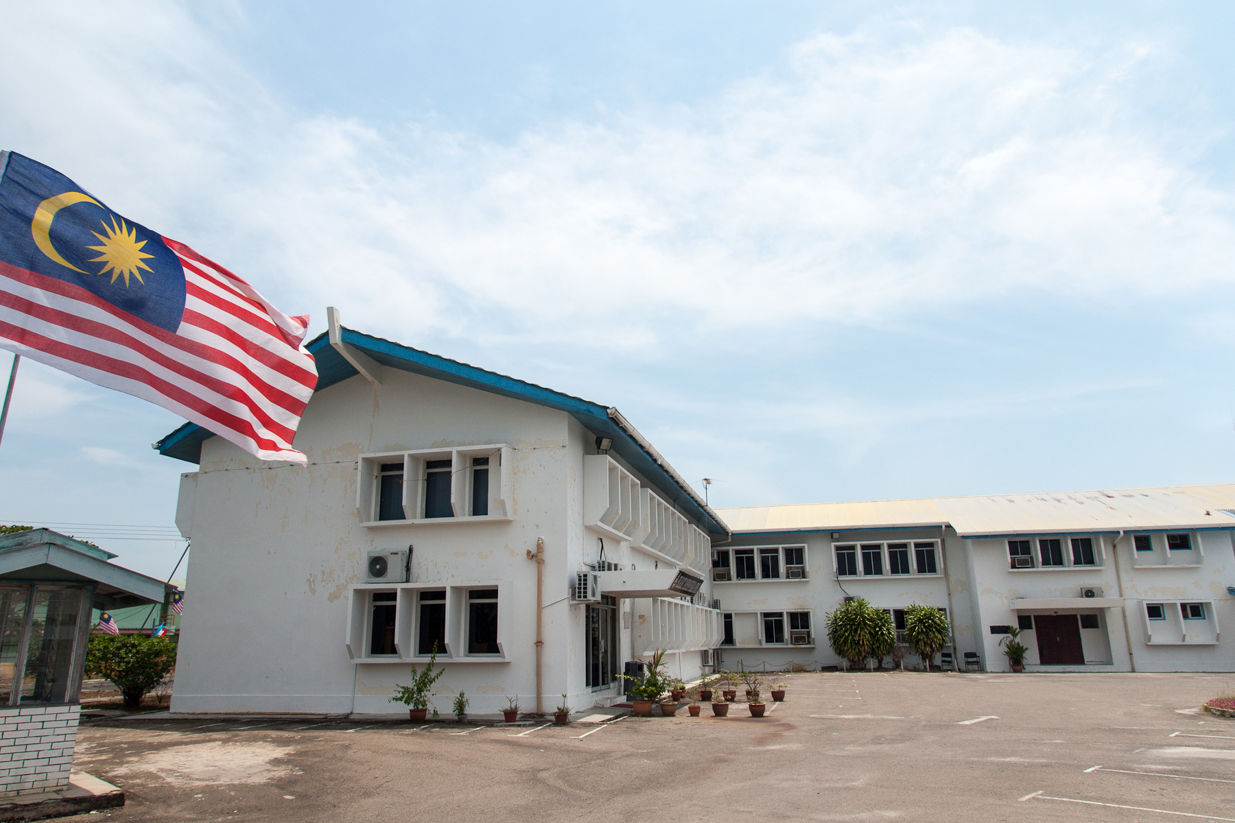 Kuala Penyu District Office (Pejabat Daerah Kuala Penyu)